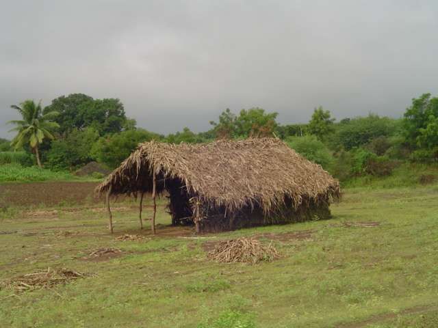 Hut in a farm Soundane village